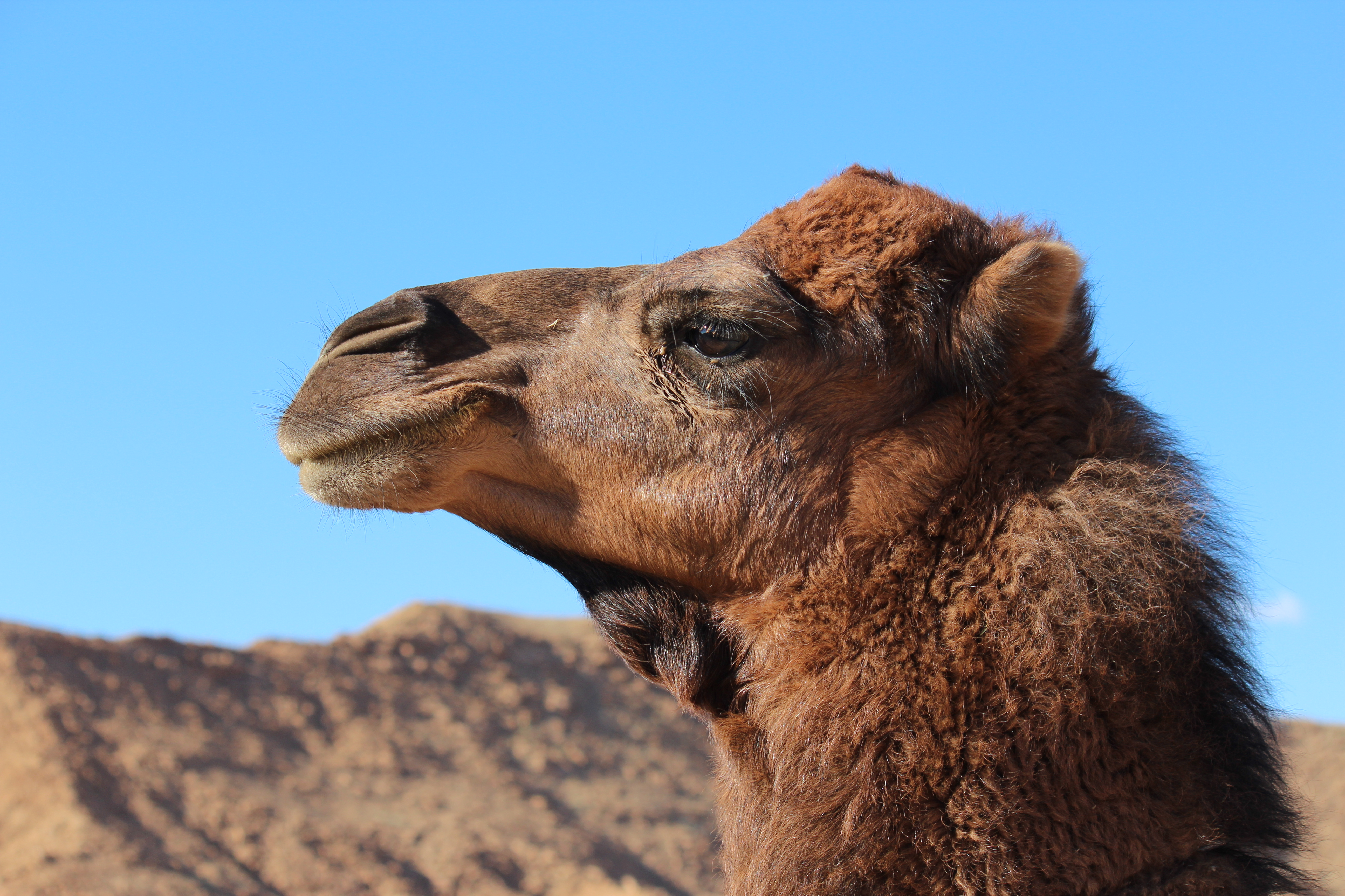 Dromedary at M'Chouneche, Biskra province, in Algeria